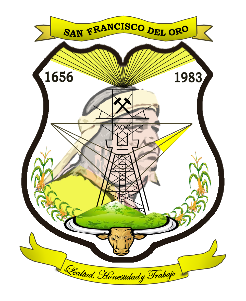 Escudo de la Ciudad de San Francisco del Oro, Chihuahua